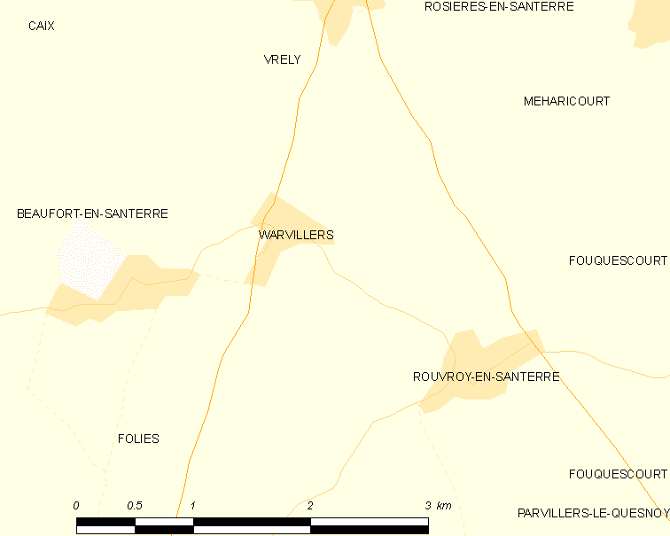 Map of French municipality Warvillers